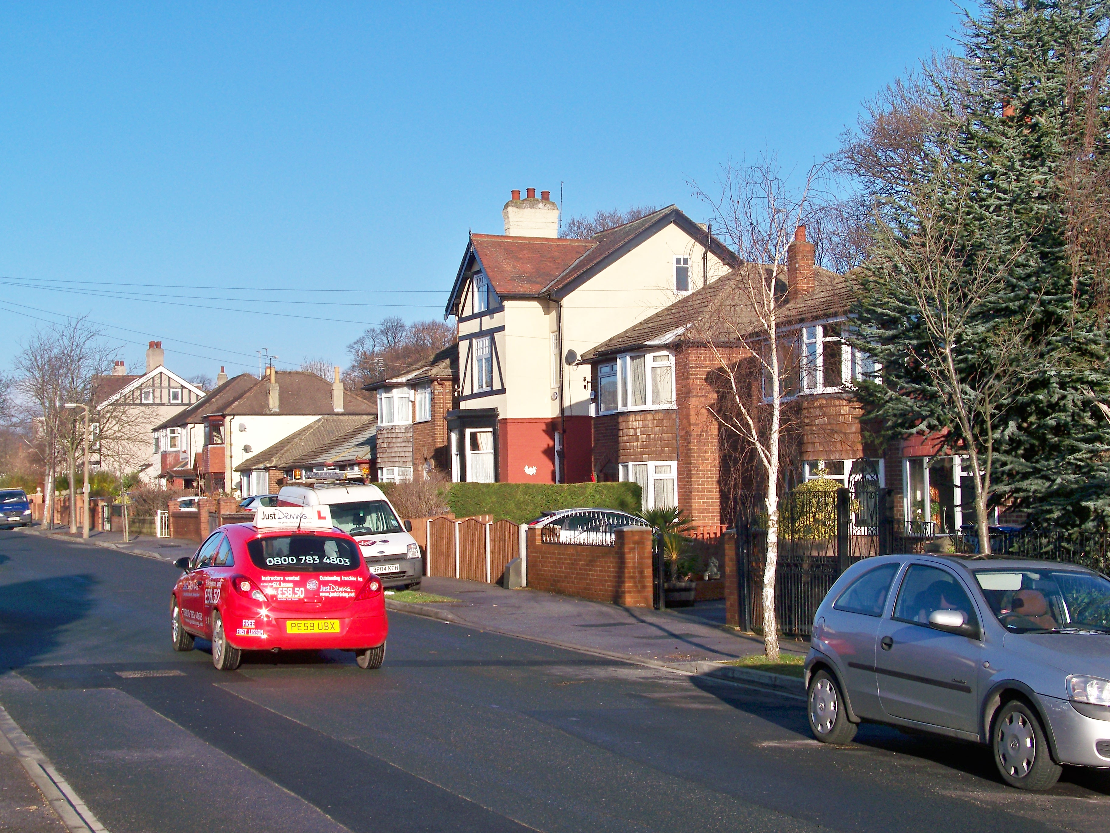 Looking up Fearnville Place from near its junction with Fearnville Road in Fearnville, Leeds, West Yorkshire. A learner driver is seen ahead, the area being popular with driving schools. Taken around midday on Saturday the 12th of December 2009.